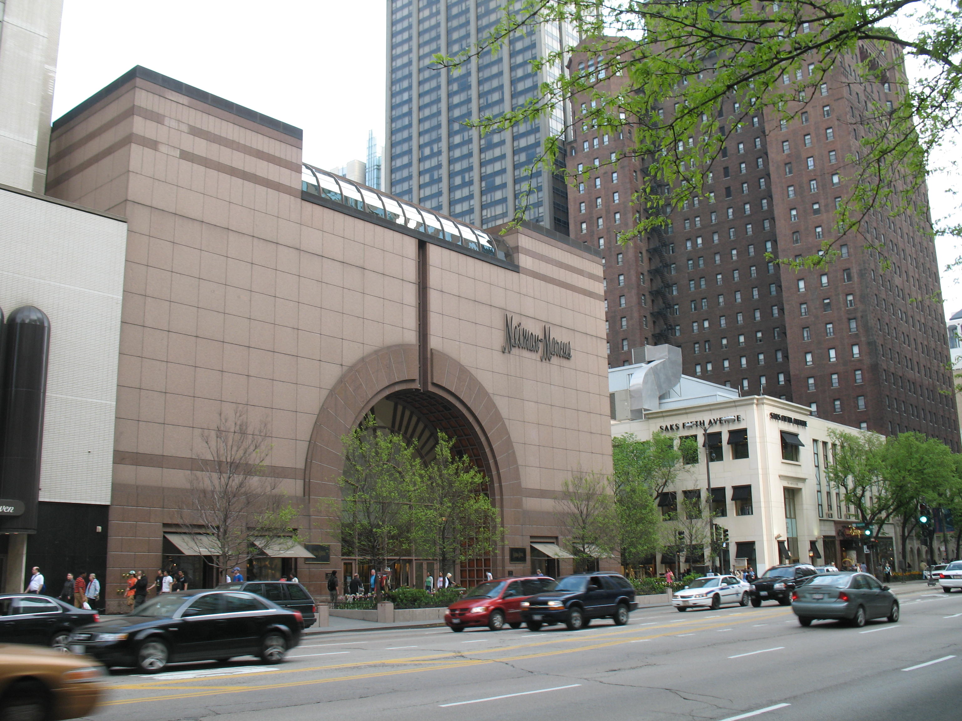 Neiman-Marcus Saks Fifth Avenue